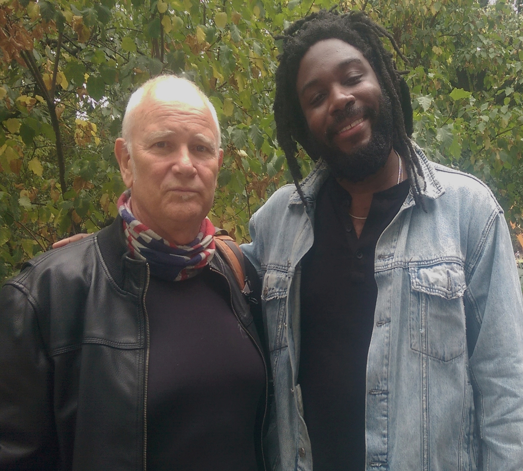 library festival berlin kreuzberg, young author reynolds meets old man günther